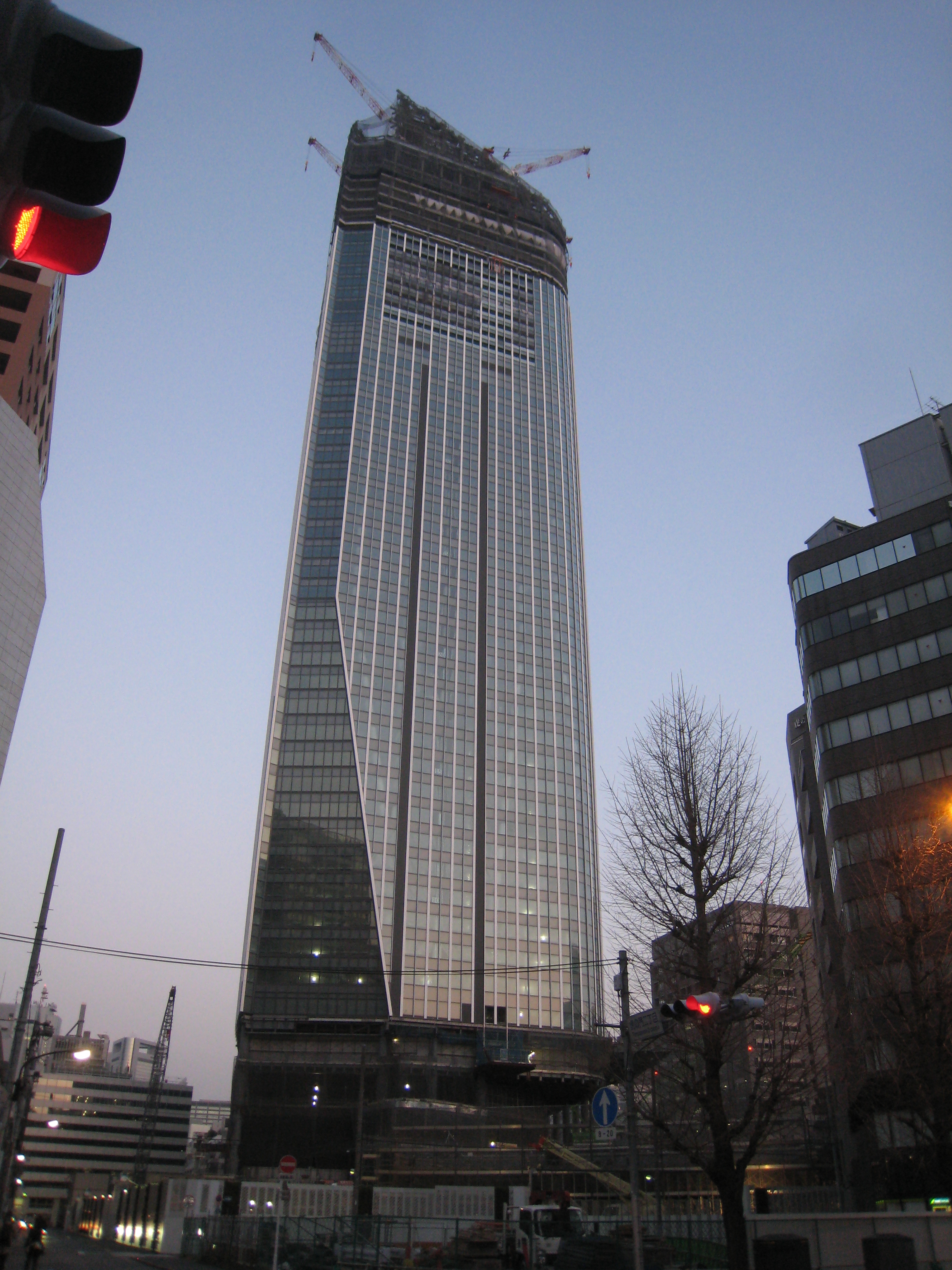 Toranomon Hills under construction